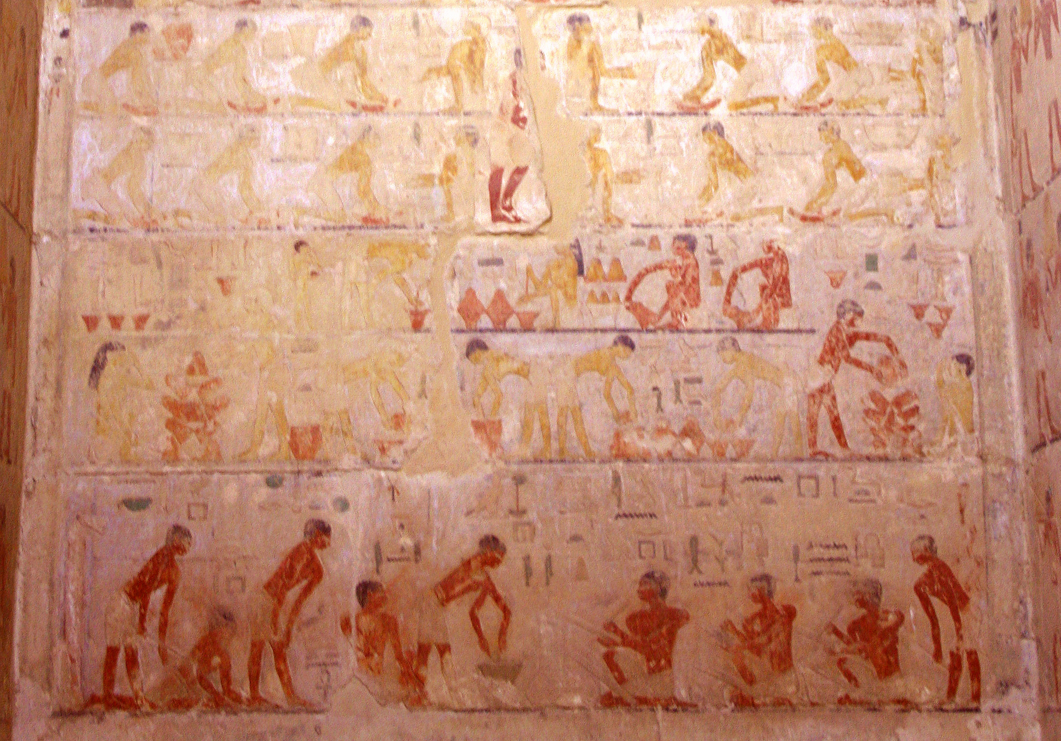 Mastaba of Ti, Saqqara, 5th Dynasty